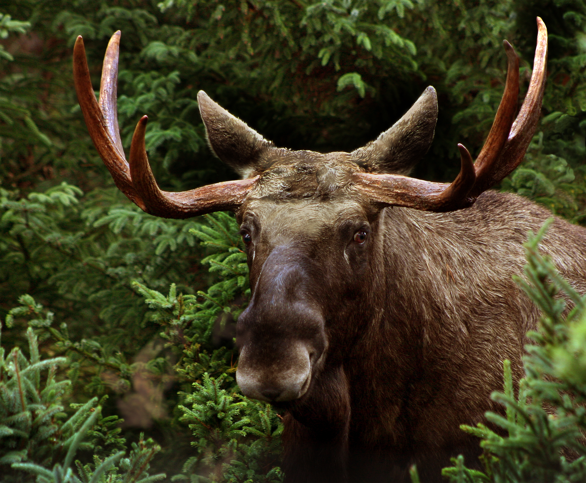 Portrait of a male moose (Alces alces), photo taken at Smålandet Markaryds Älgsafari in Småland, Sweden